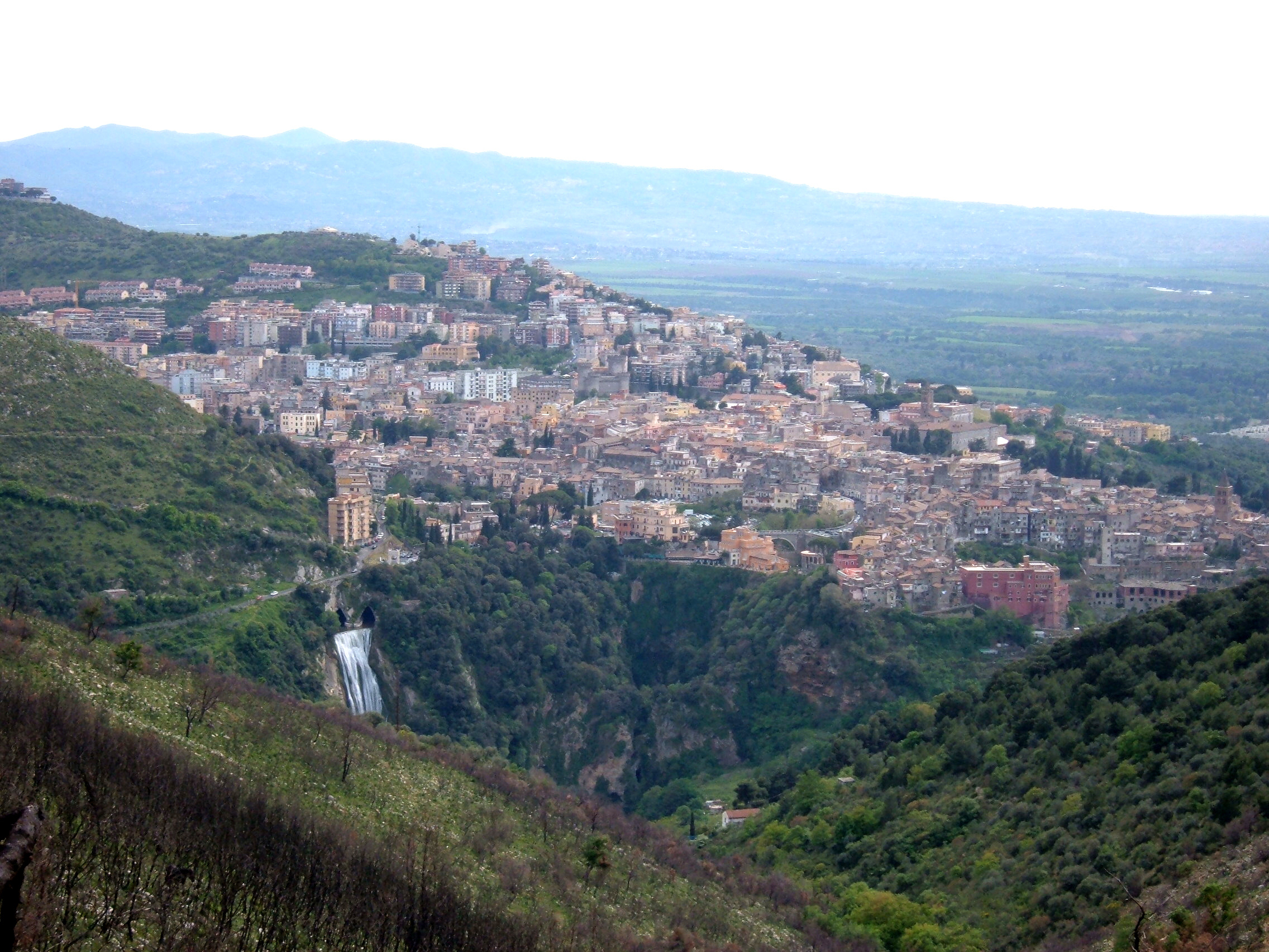 Tivoli, Italia. View from Monti Tiburtini. May 2005, foto: Kleuske.